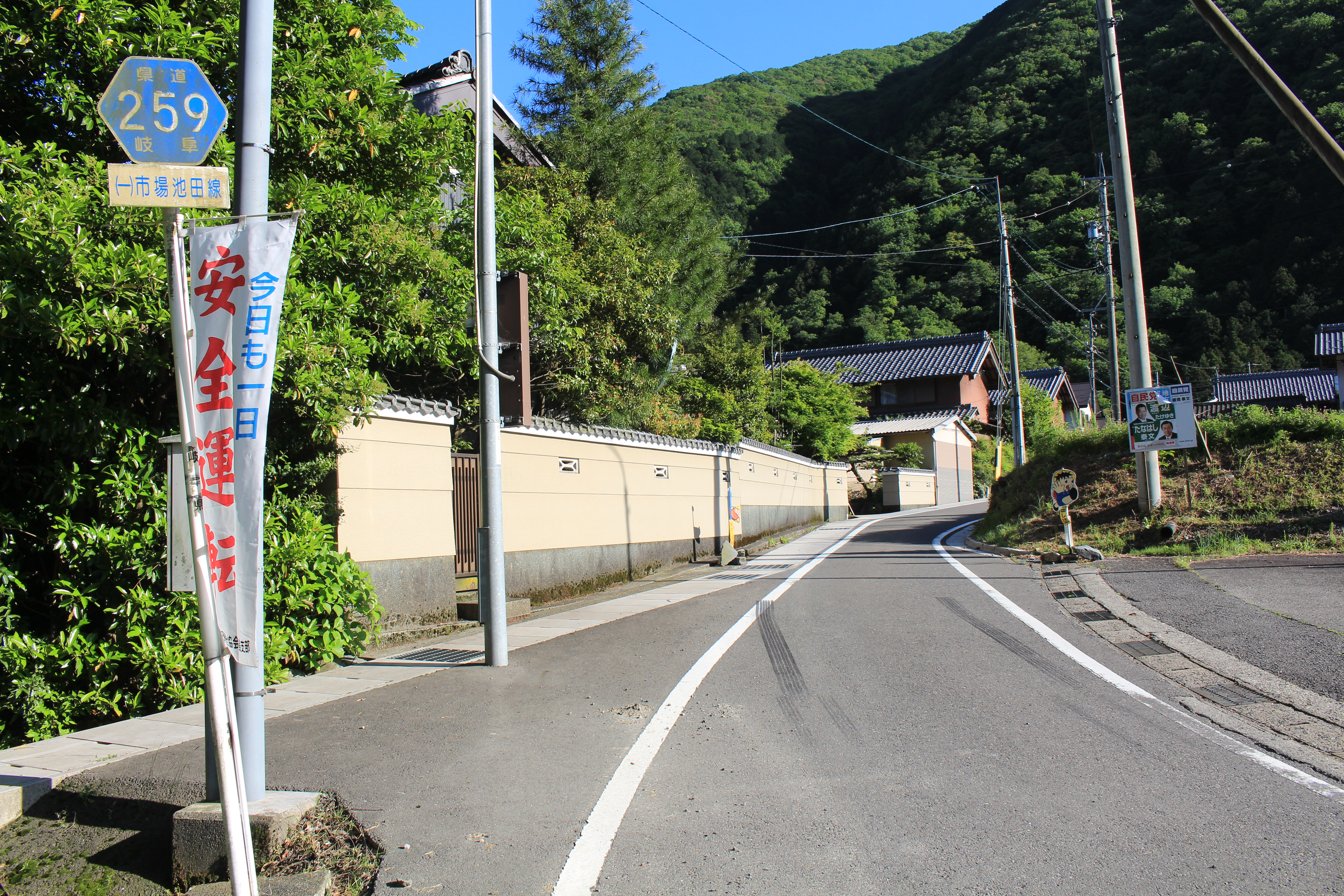 Gifu Prefectural Road Route 259 in Zuiganji, Ibigawa, Gifu Prefecture, Japan.